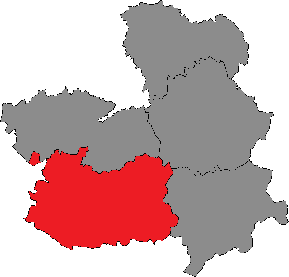 Cortes of Castilla-La Mancha district of Ciudad Real.